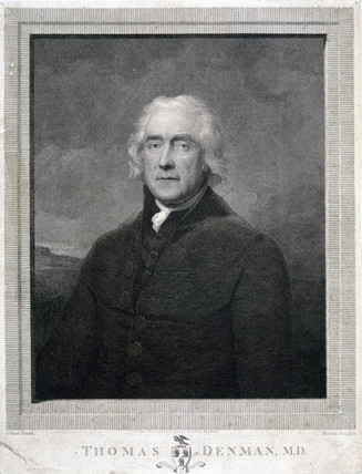 Thomas Denman, doctor, from Bakewell in Derbyshire. Thomas Denman, the elder, M.D. (1733-1815), physician, second son of John Denman, an apothecary , was born at Bakewell, Derbyshire, 27 June 1733.